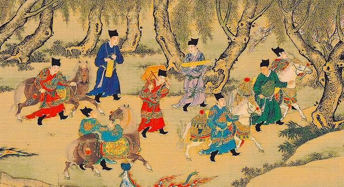 Several specialized Ming imperial guards called the Jinyiwei, or "Brocade-clad guards" in all manners of uniforms guarding the Emperor's treasures.